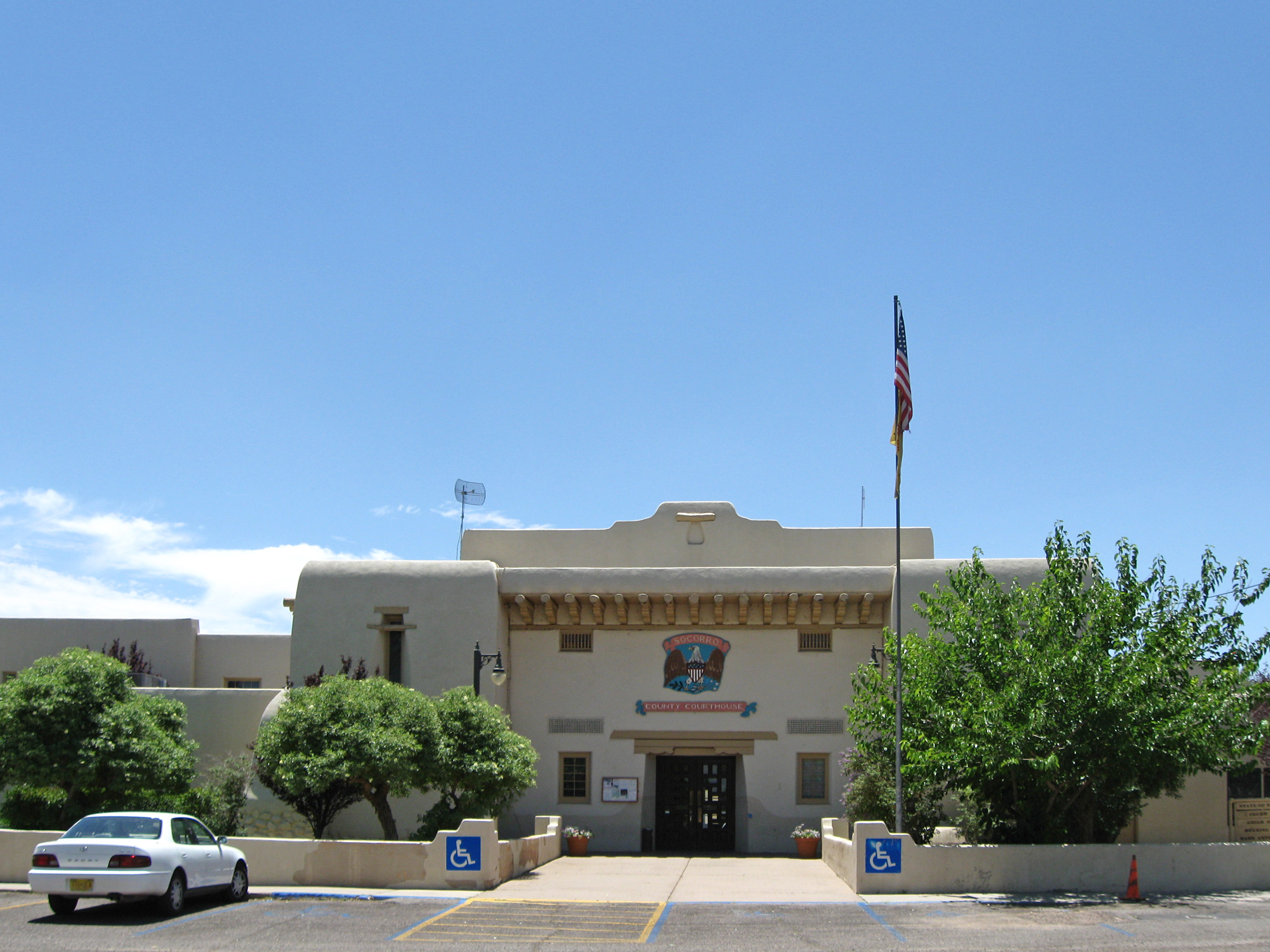 Socorro County (New Mexico) Court House, located at 200 Church Street (at the foot of Court Street) in Socorro, New Mexico. According to a plaque inside the entrance, the Court House is a Works Progress Administration building erected in 1940.